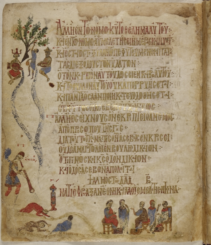 Image from the Theodore Psalter